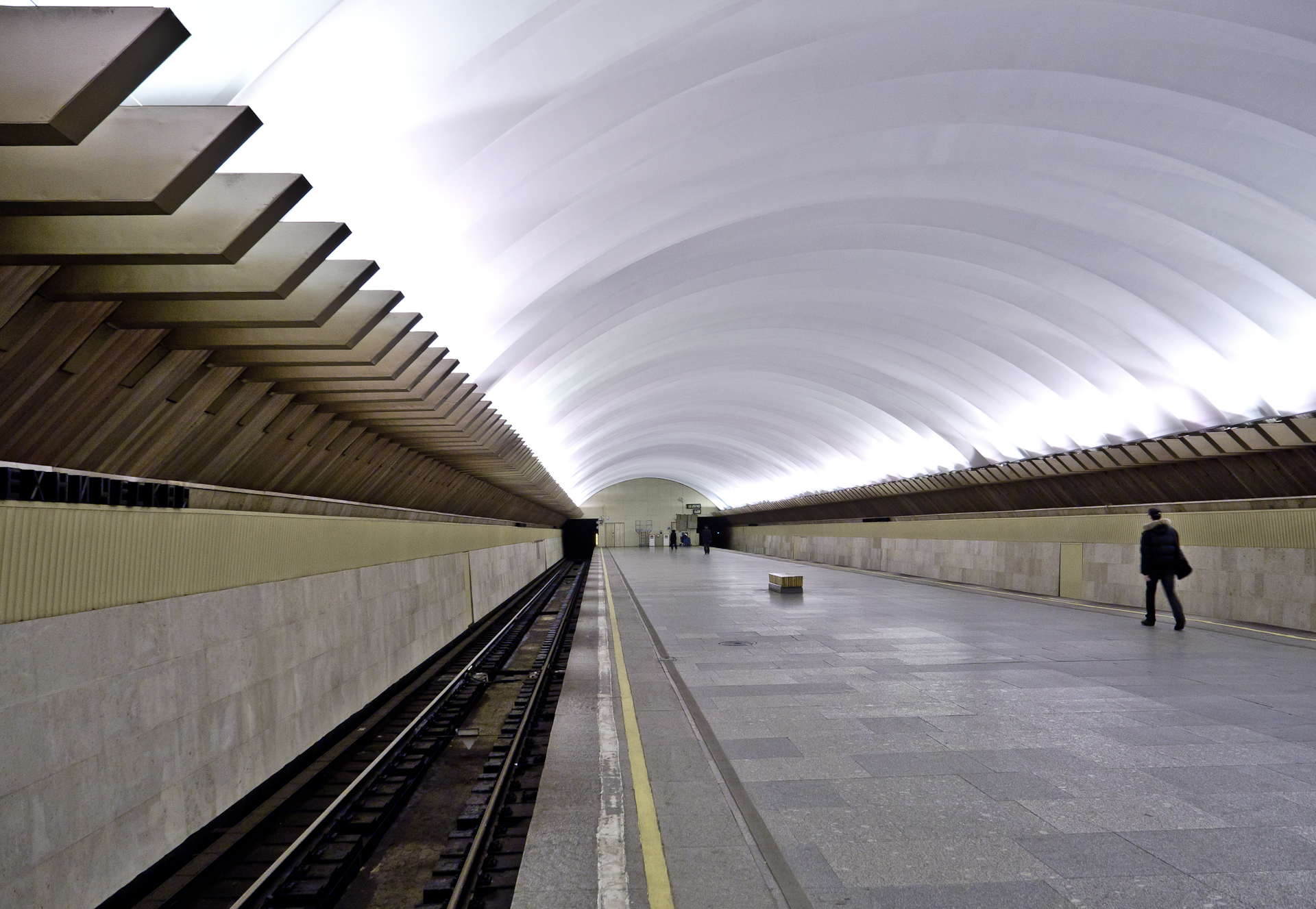 Politekhnicheskaya subway station of Saint Petersburg